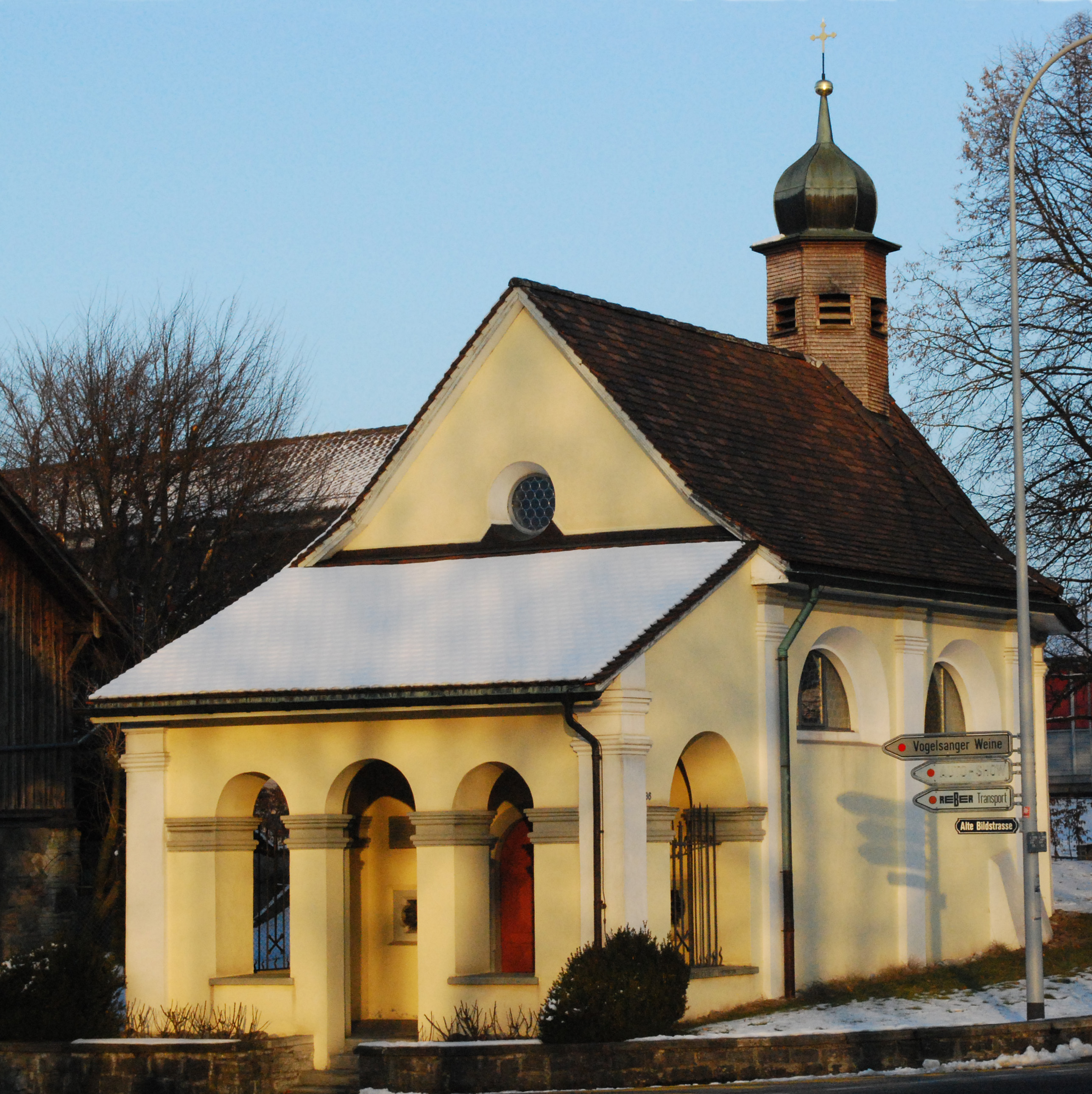 St. Barbara chapel in St. Gallen, Switzerland